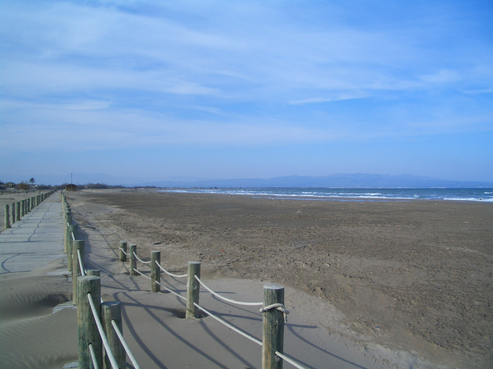 Riumar Beach, at the Delta de l'Ebre